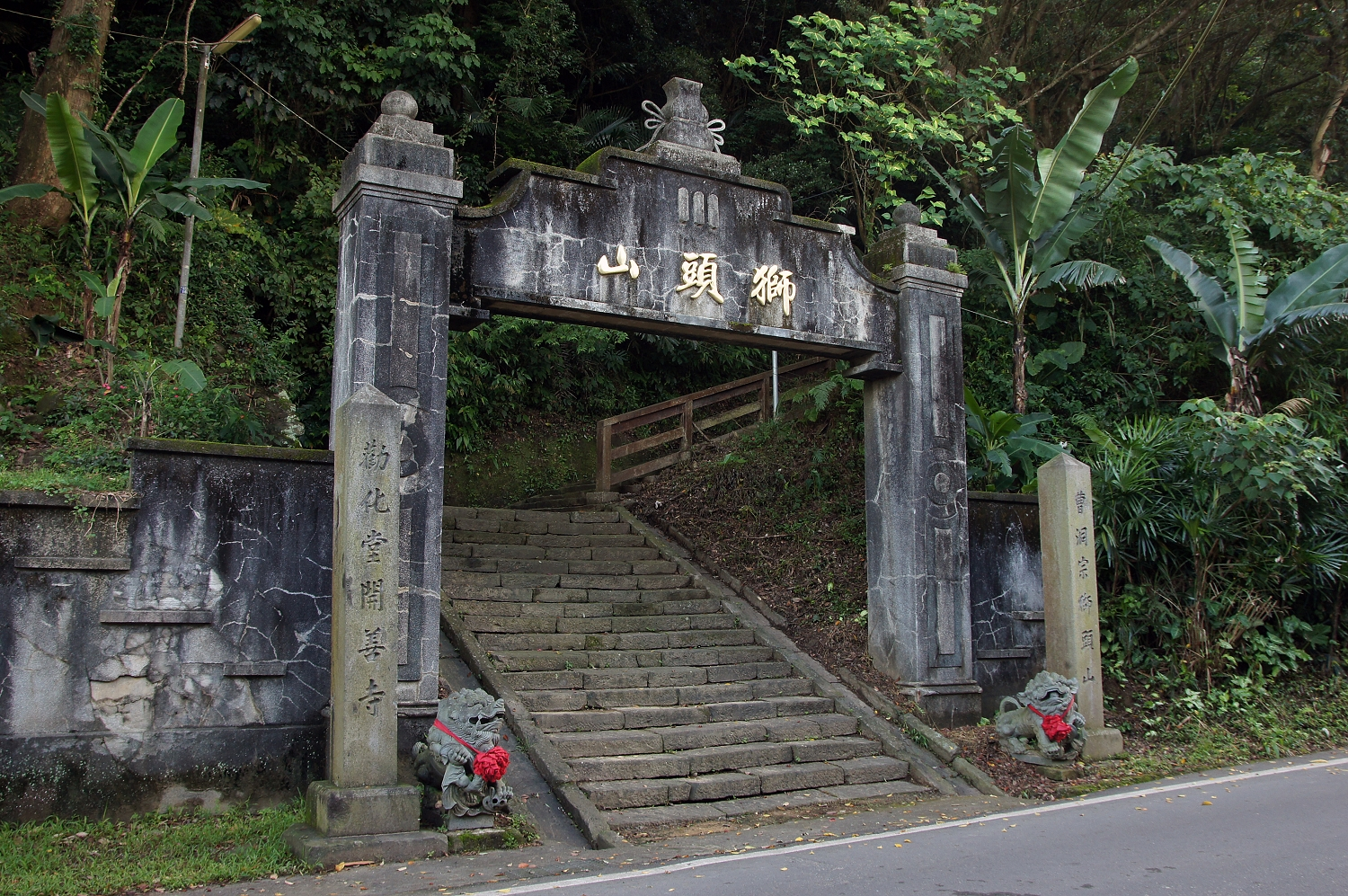 The entrance of mountain lion's head.中文（台灣）: 苗栗三灣獅頭山入口。